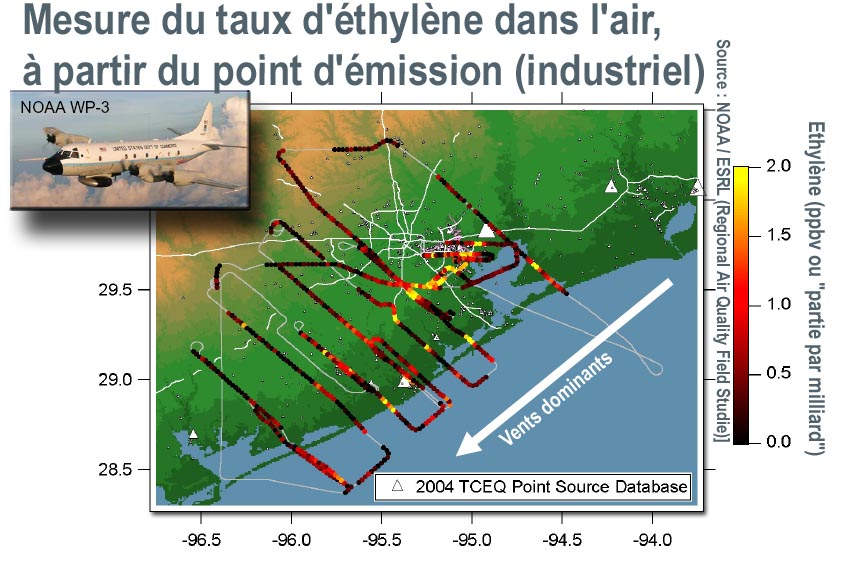 Flux of ethene (from some points as state-inventorie (industrial origine) from Freeport region (TEXAS, USA) Source NOAA ERSL (Regional Air Quality Field Studie) (consulted 2009 12 23)